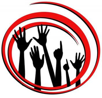 The logo of the political party Abrera En Comú.